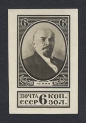 Stamp of USSR